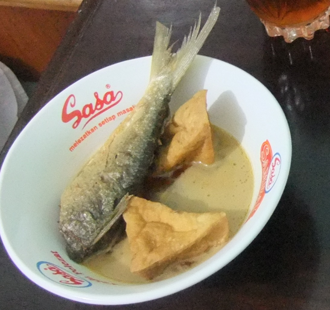 Milkfish in coconut milk